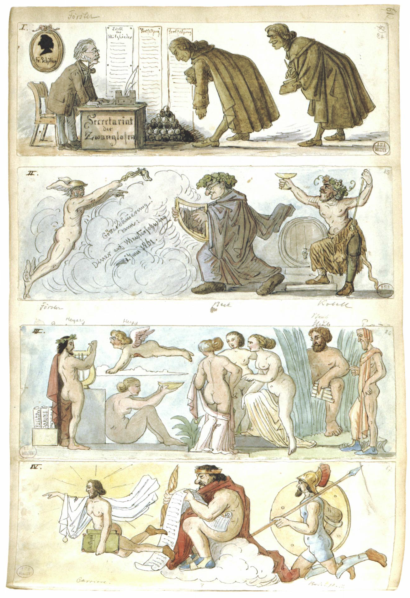 satirical drawing by Franz Graf von Pocci. The drawing shows the "Zwanglose Gesellschaft München", a social club of mostly artists, that Pocci was a member of.